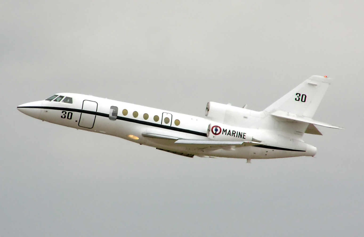 Dassault Falcon 50M of the French Navy, taking off from the Royal International Air Tattoo, Fairford, Gloucestershire, England. Photographed by in July 2005 and released to the public domain.